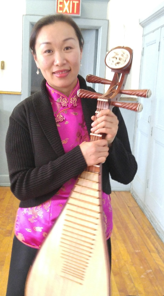 Liu Fang after concert